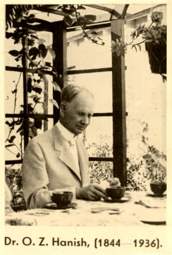 Dr. O.Z. Hanish, (1844 - 1936)